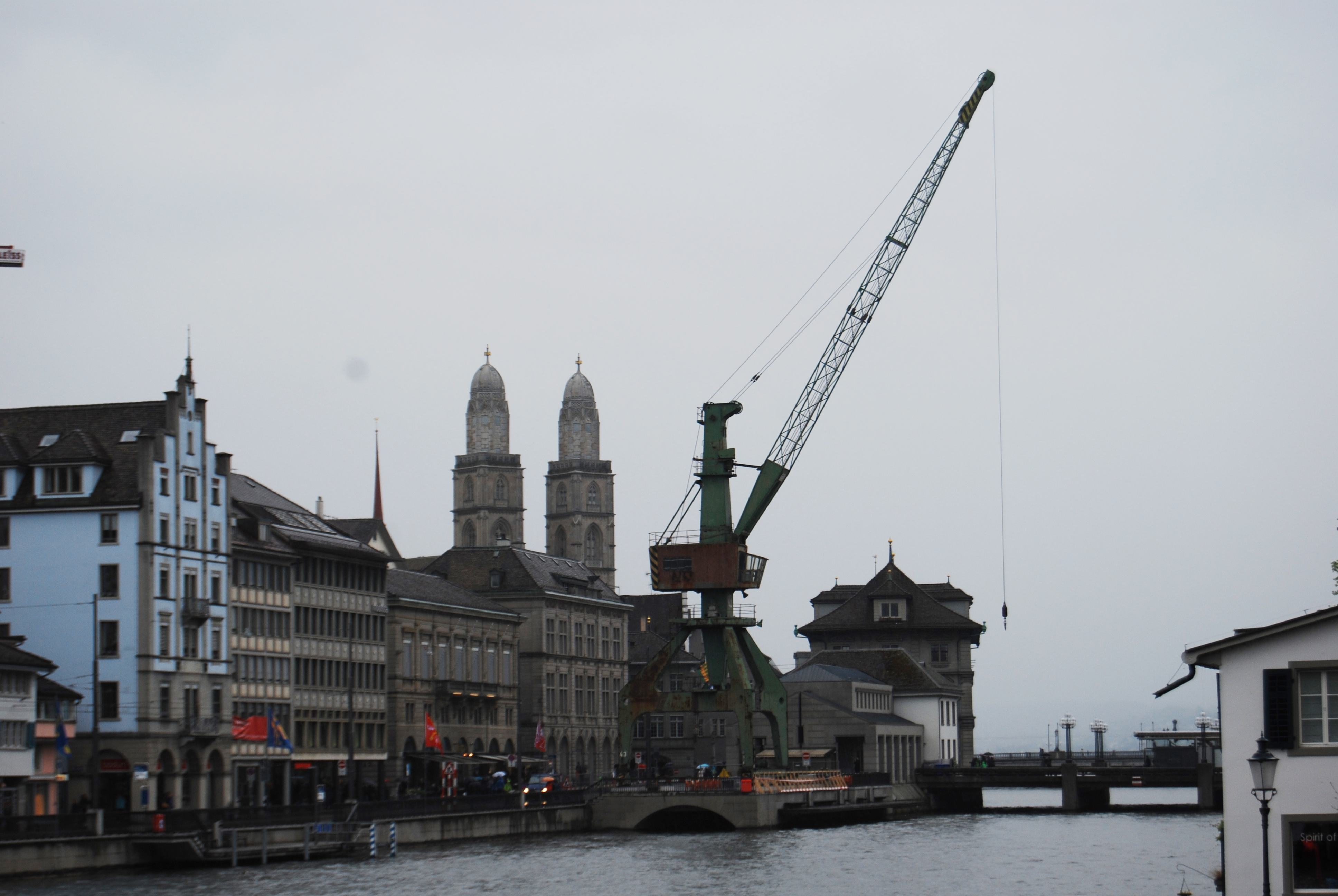 Port crane of Zürich, canton of Zürich, Switzerland